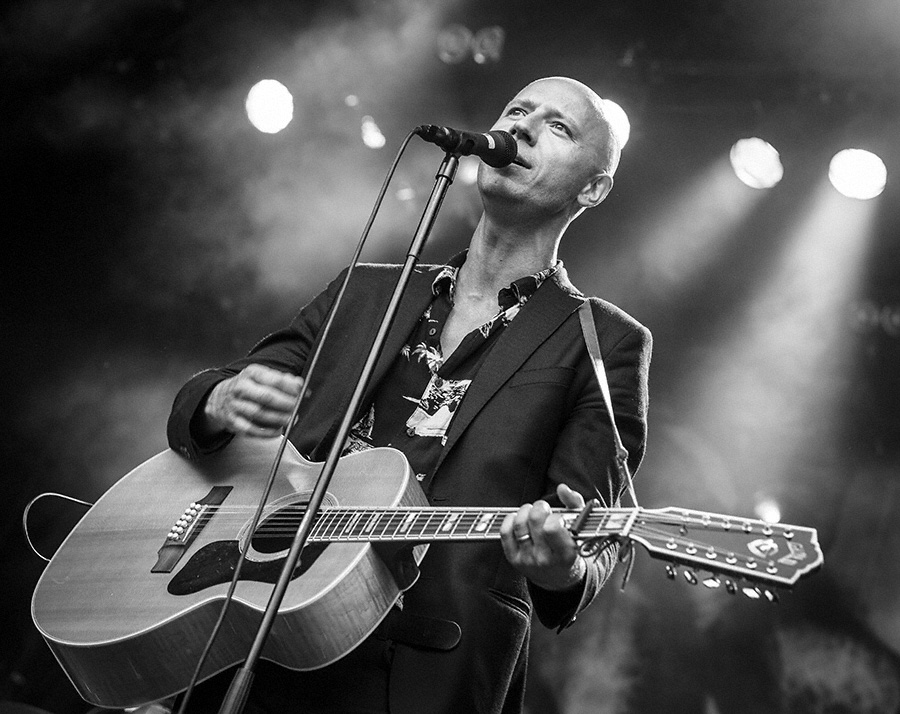 Sivert Høyem performs at Piknik i Parken in Oslo on 25. June 2016. Lineup:Sivert Høyem (vocal)Unknown (guitar)Unknown (guitar)Unknown (bass)Unknown (drums)